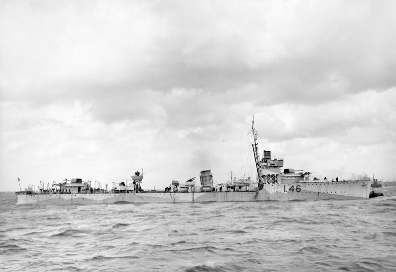 Photograph of British destroyer HMS Winchelsea.